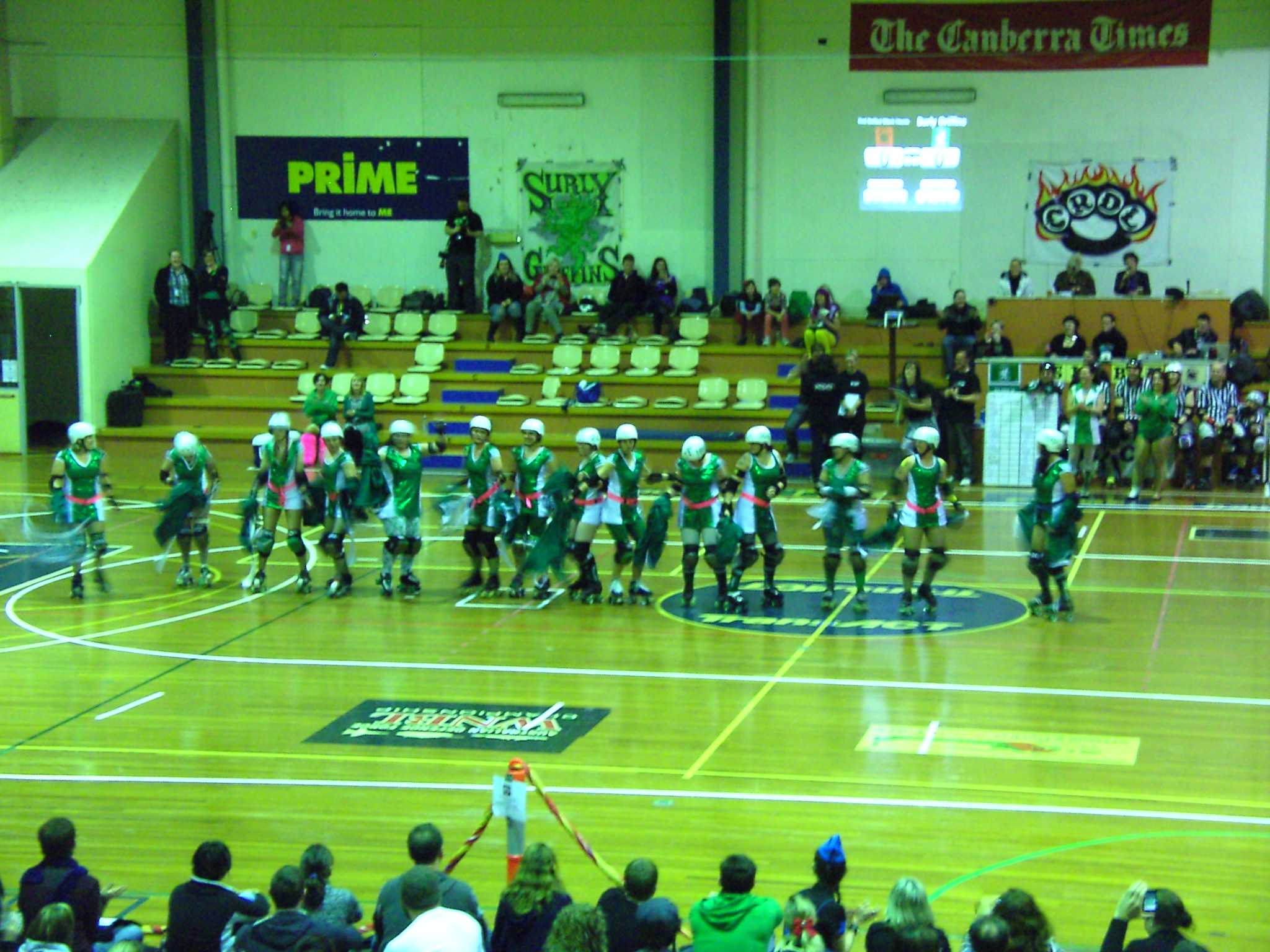 Canberra Roller Derby League team "Surly Griffins" (allusion to Walter Burley Griffin